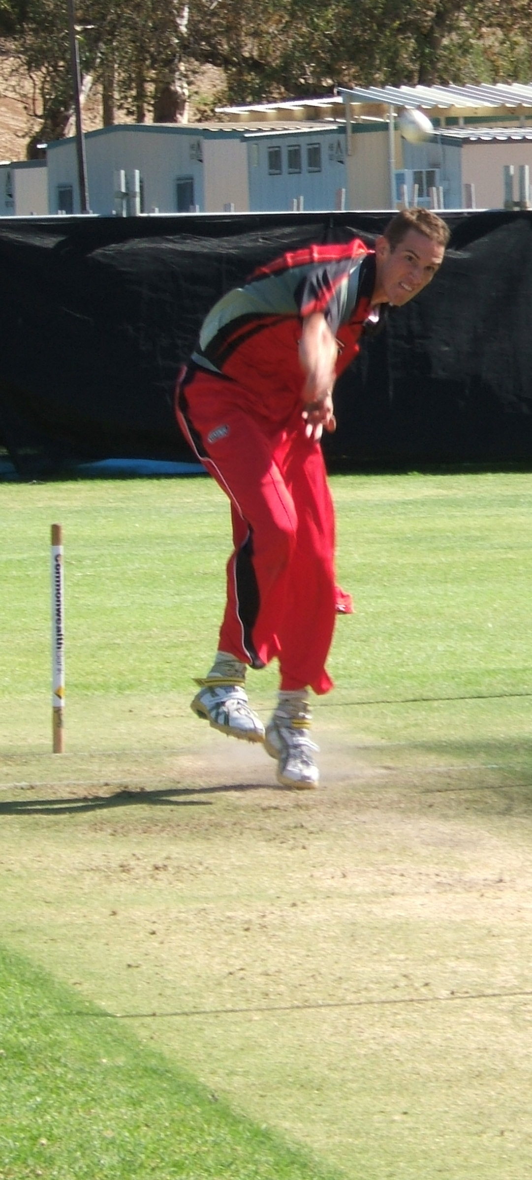 Named person engaging in named action at Adelaide Oval nets/training ground